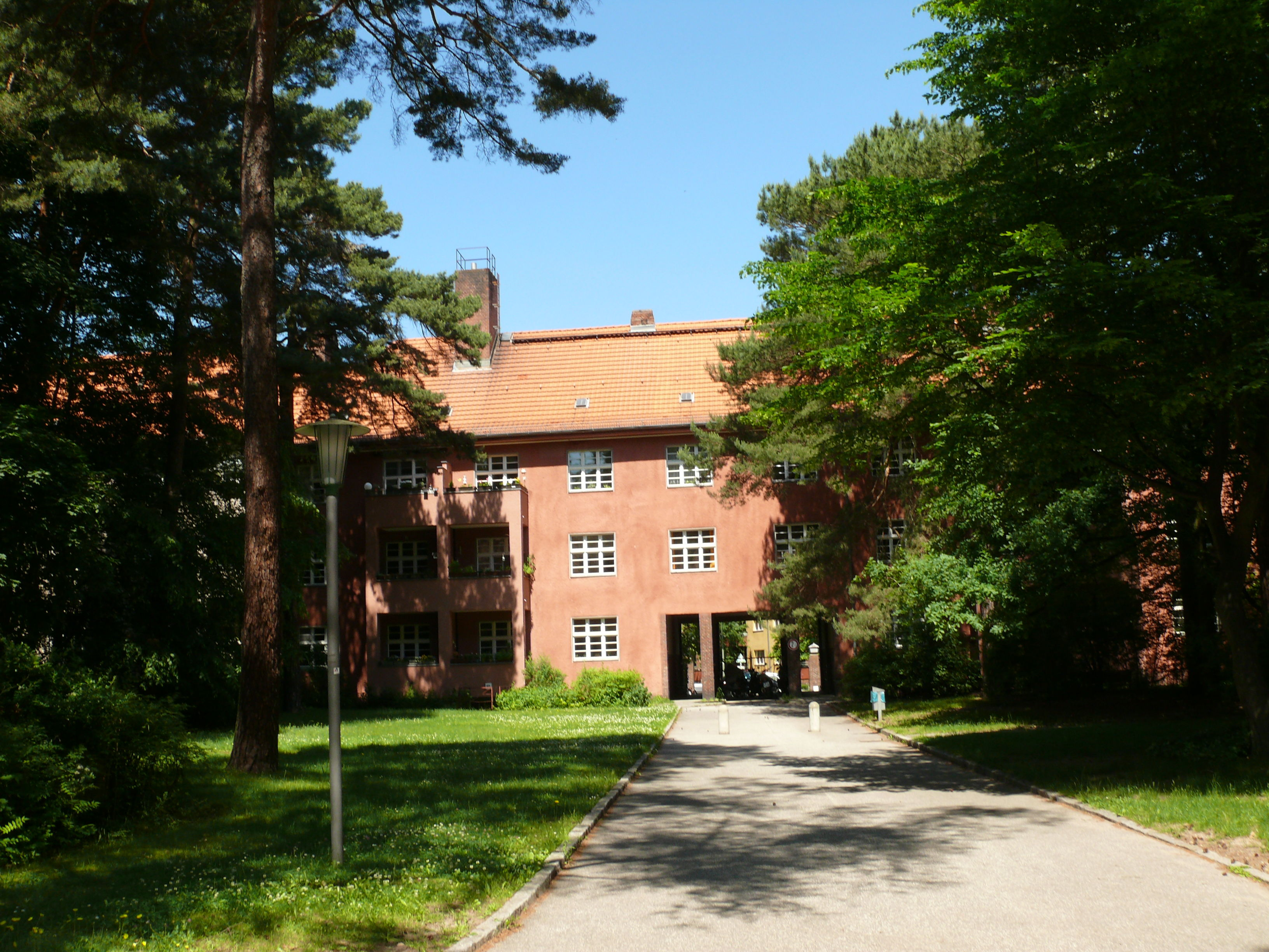 Berlin-Zehlendorf Zinnowwaldsiedlung